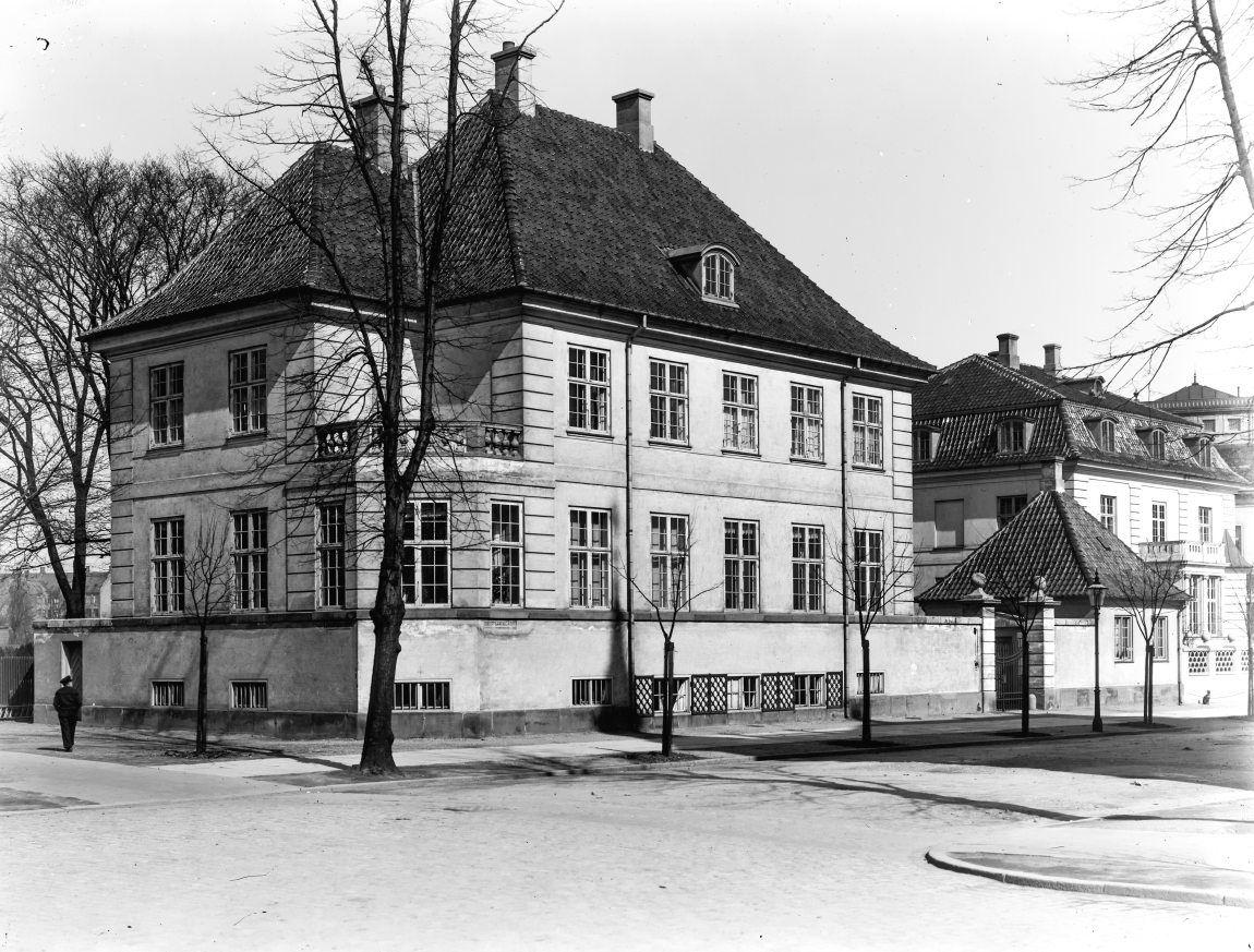 Otto Benzon's villa at Kristianiagade 1 in Copenhagen, Denmark